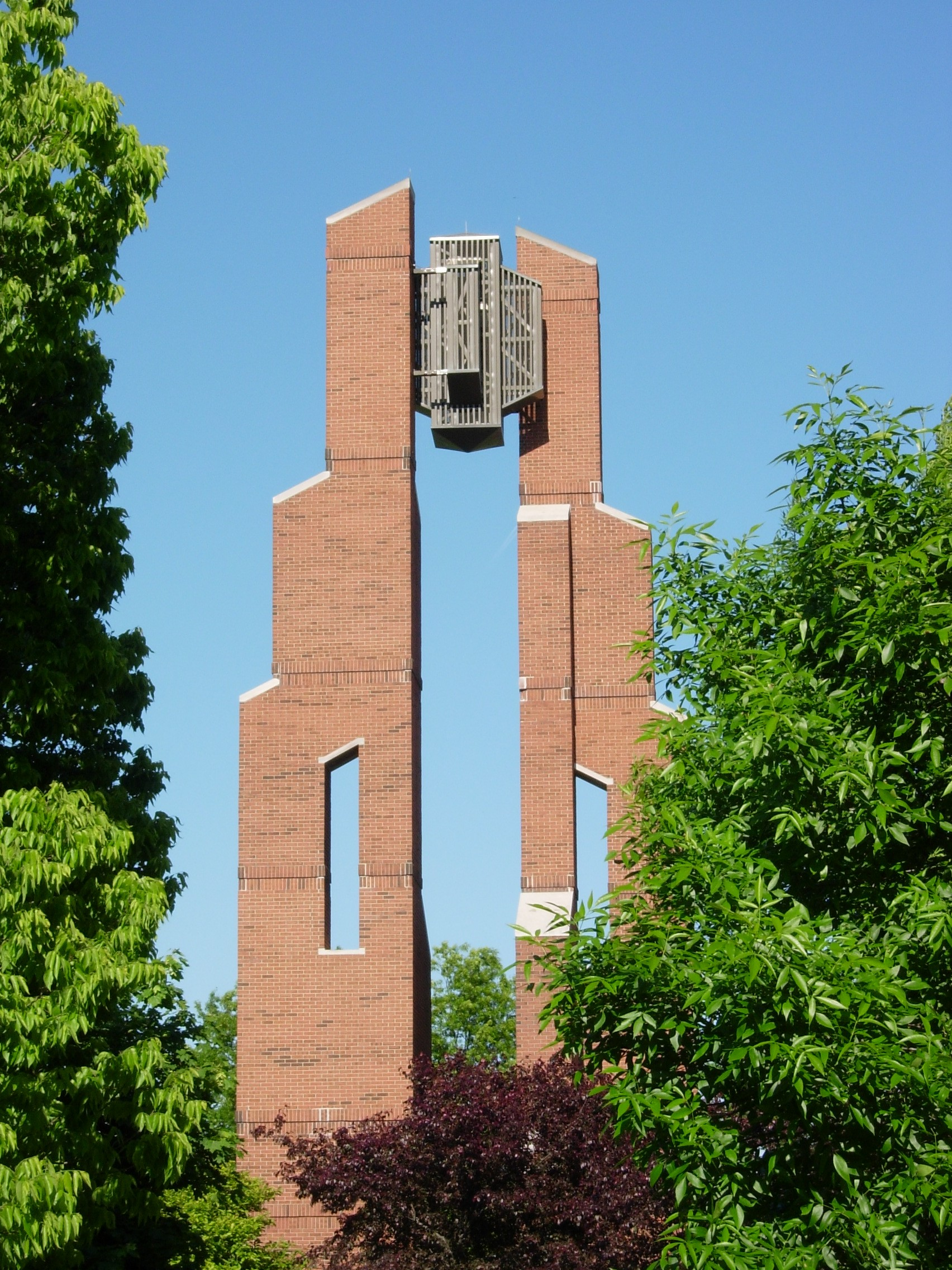 Author: Andy Rowell Date: May 22, 2006 7:30 pm Location: Taylor University, Upland, Indiana Object: Rice Bell Tower. Spires represent integration of faith and learning